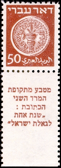 "Hebrew Mail" stamp, from the first and provisional stamp series of the State of Israel, Issued hours after The Declaration of Independence - 50 mil. Inscription on tab: "Coin from the period of the second revolt." The coin inscription: "Year one of the redemption of Isreal".